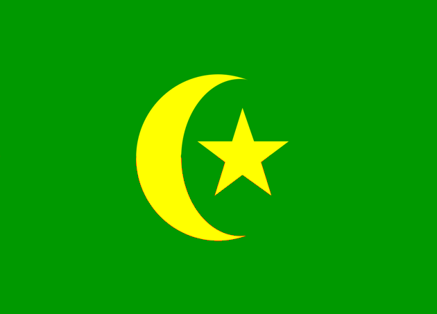 One of the 3 flags of the Kokand khanate, since